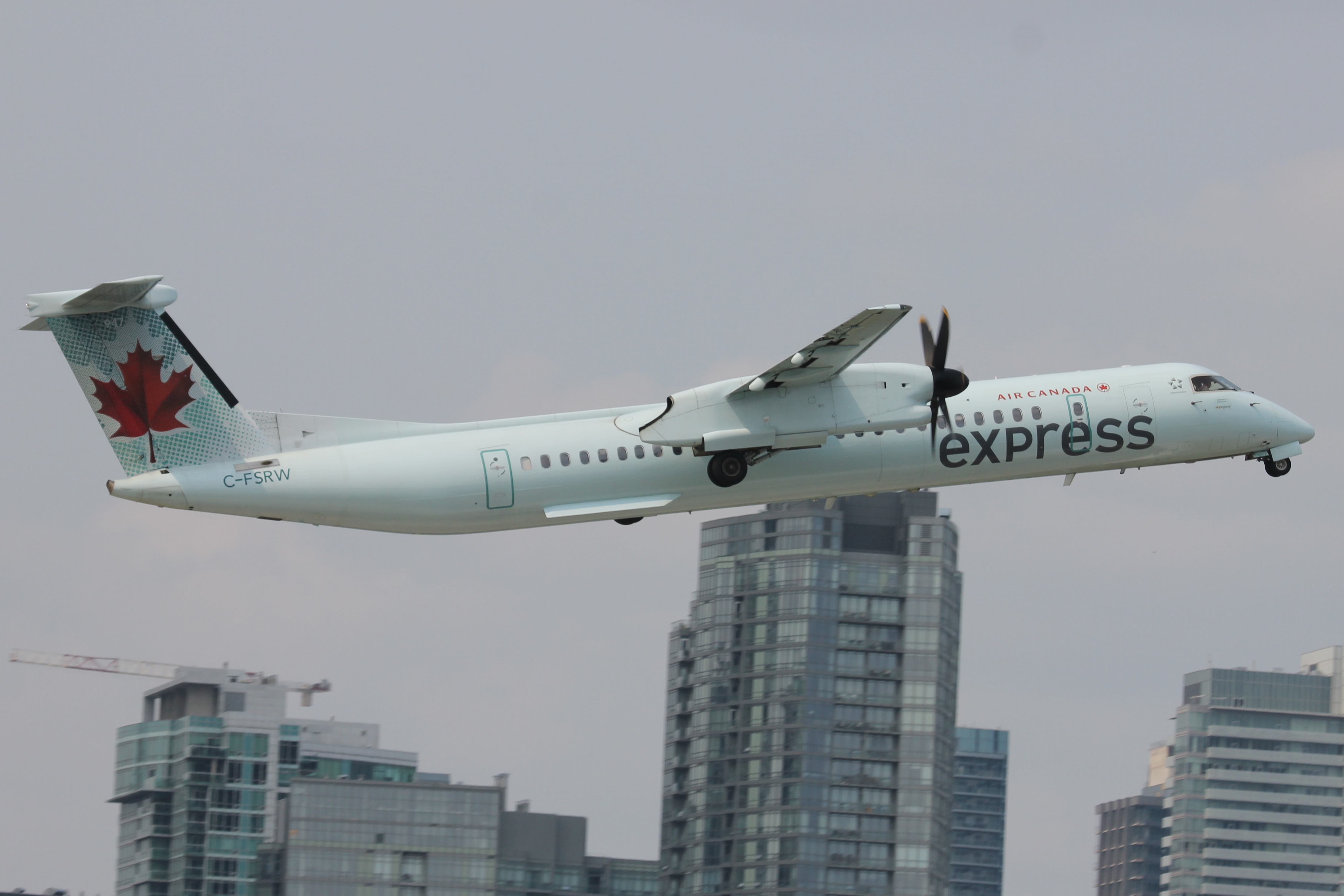 A SkyRegional/Air Canada Express Dash 8-Q400 departs at Toronto - City Centre Airport